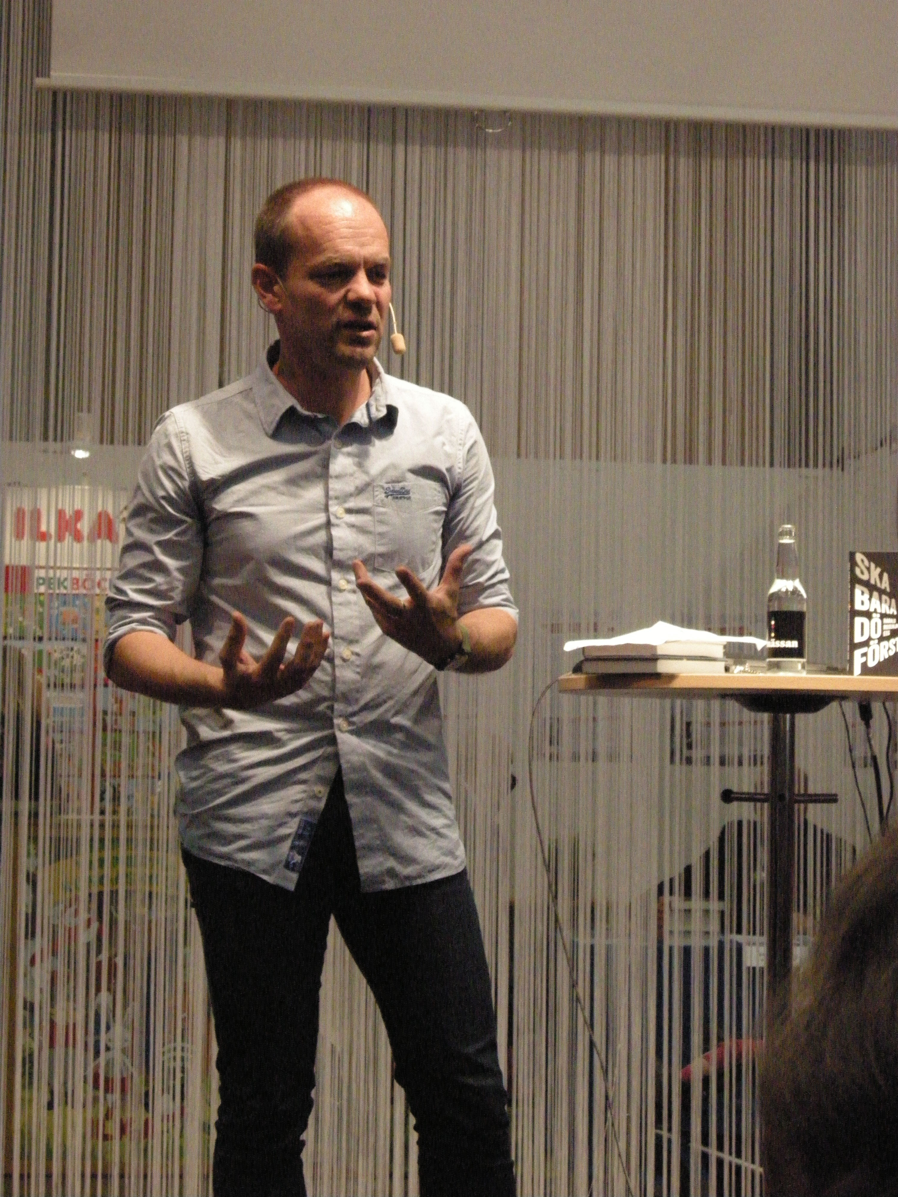 Norwegian writer Harald Rosenløw Eeg at Gothenburg Book Fair 2012